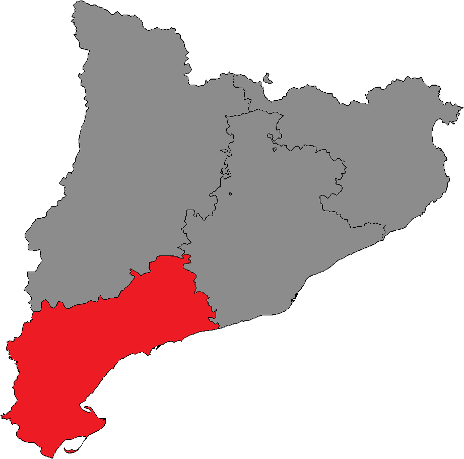 Parliament of Catalonia district of Tarragona.